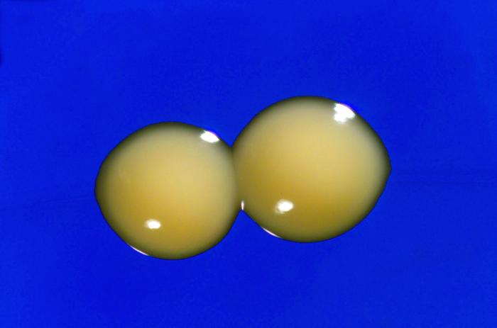 This image, which was photographed in 2005 using a blue filter, depicted a close-up perspective of Mycobacterium cosmeticum bacterial colonies of strain LTA-388T, growing on Middlebrook 7H10 agar, which is used primarily in the isolation of mycobacteria, as well as for the antimicrobial susceptibility testing of these organisms. What's in a Name? When Dr. Robert Cooksey set out to name the new mycobacterial organism recovered from cosmetic patients and sites, he consulted several Latin dictionaries. He found the word "Oesypum" meant cosmetic, but other interpretations of the word described the term as "sheep sweat" (from which lanolin is derived), which he felt was not an appropriate word. Upon consulting IJSEM, the official journal that recognizes new species, he was advised to Latinize the English word "Cosmetic" - hence the organism was named M. cosmeticum. Dr. Cooksey, a 30 year microbiologist working with his research team in the CDC’s TB lab, discovered the M. cosmeticum bacterium, which can thrive in salons, healthcare and clinic settings. This species is the newest identifiable mycobacterial organism to thrive in these settings, joining other rapid growing species, Mycobacterium fortuitum, M. chelonae, and M. abscessus, that have been found in previous outbreaks. “We find these organisms are very persistent in the environment and can survive unusually harsh environmental conditions - for example, in biofilms", says Cooksey. "The antibiotic therapy can go on for many months or even years. It very often requires an incision to remove the abscess. The person winds up getting disfigured, so the end result is the opposite of what the patient went in originally for - a more attractive body."